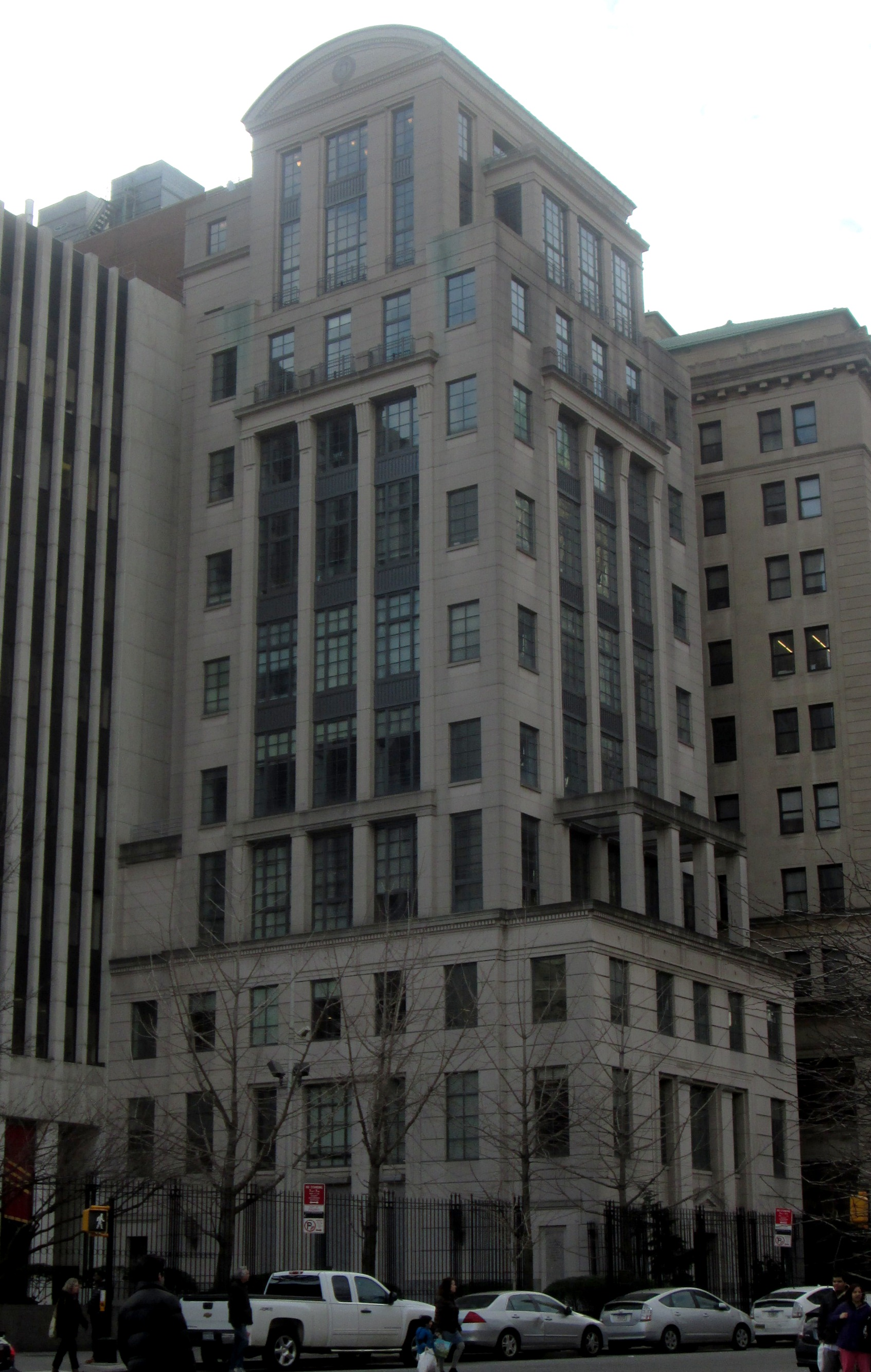 Fell Hall of Brooklyn Law School at 250 Joralemon Street in the Civic Center district of Brooklyn, New York City was built in 1994 and was designed by Robert A. M. Stern in the Postmodern style. (Source: AIA Guide to NYC (5th ed.))